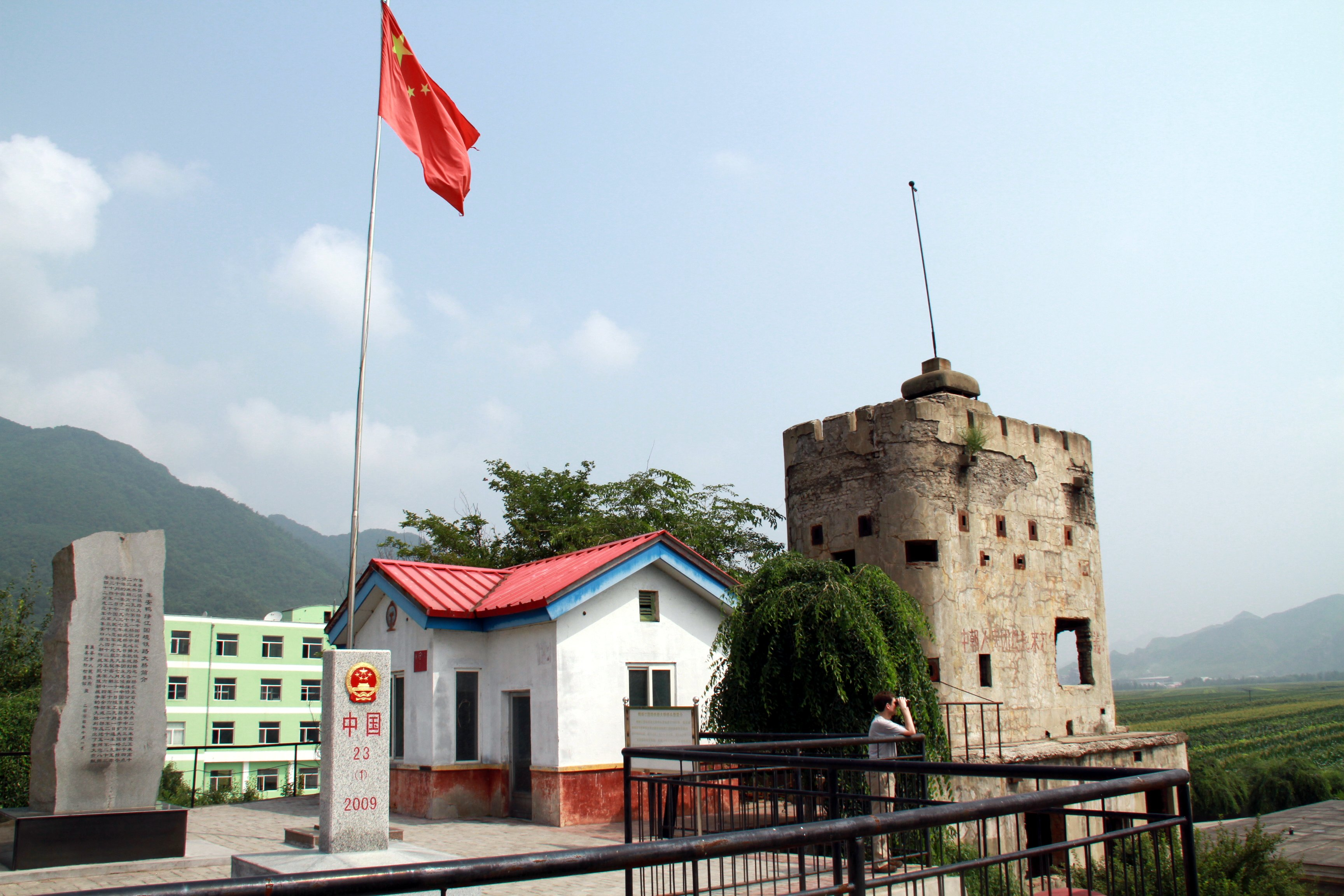 Photograph of the Chinese border post at the Ji'an Yalu River Border Railway Bridge between Ji'an, Jilin Province, China and Manp'o, Chagang Province, North Korea.